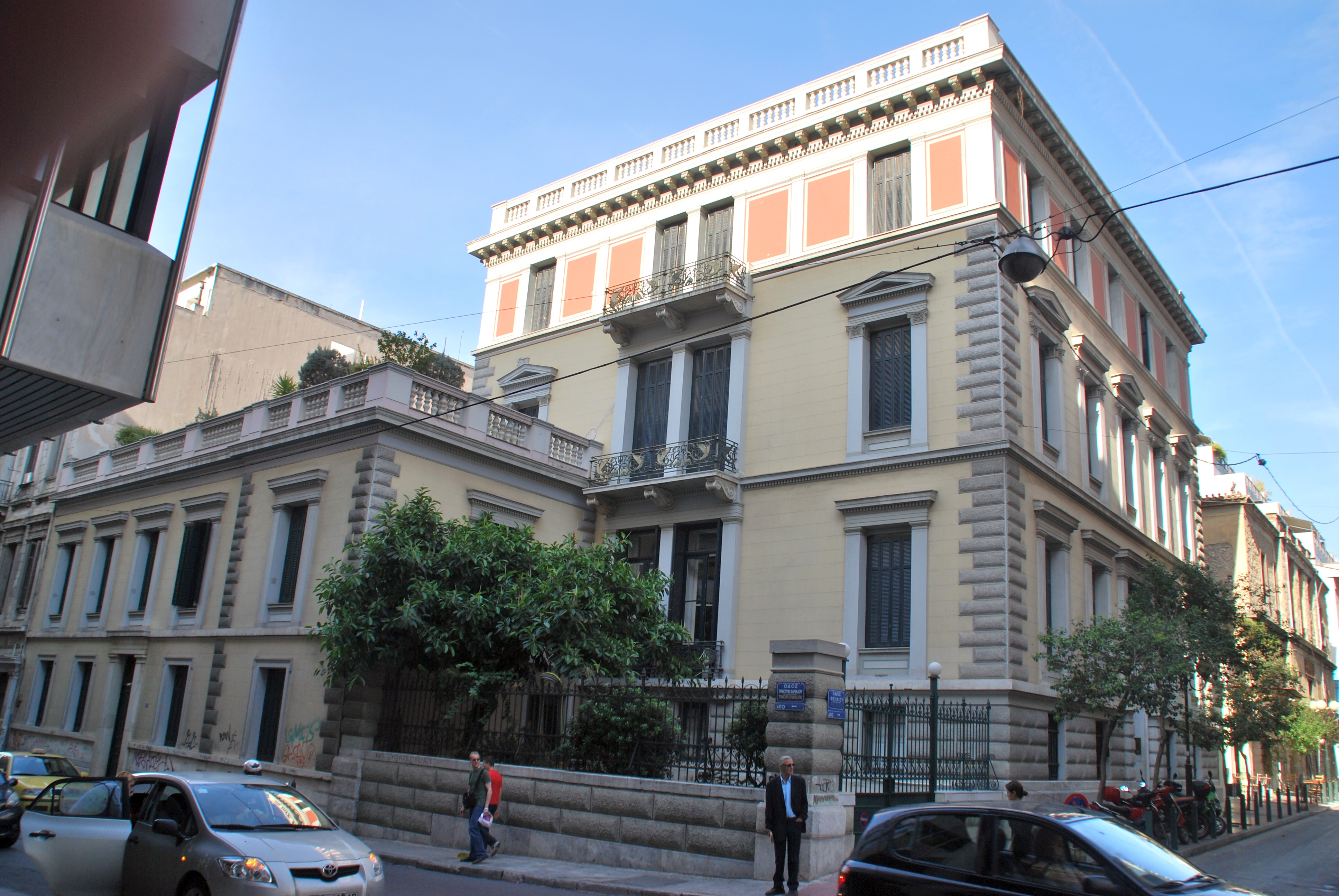 German Archaeological Institute in Athens.